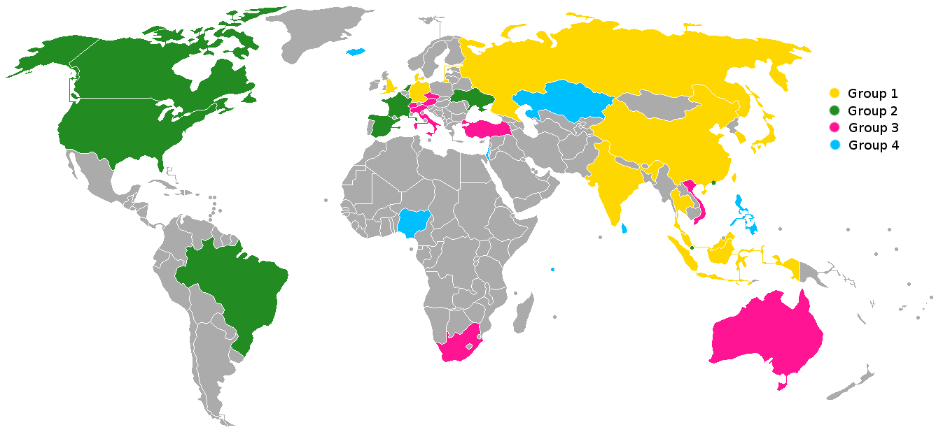 Nations participating in the Sudirman Cup in 2015.